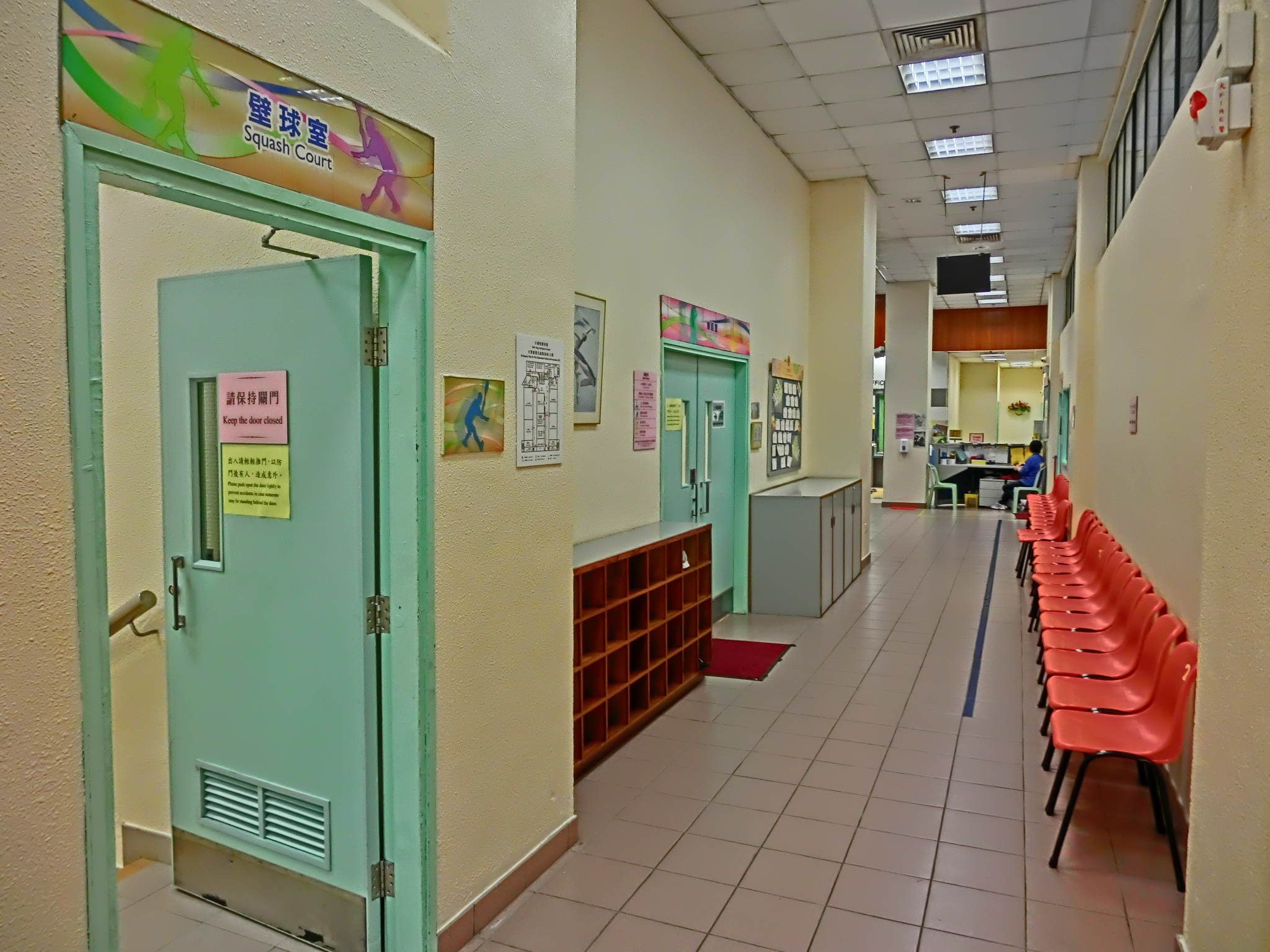 Shek Tong Tsui Municipal Services Building, 石塘咀市政大廈, Shek Tong Tsui, Hong Kong